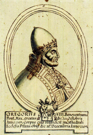 Sketch of Pope Gregory VIII by 17th century artist